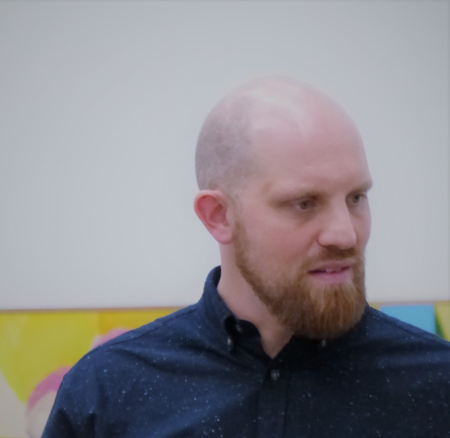 Brian Mosley (* 1980), British artist